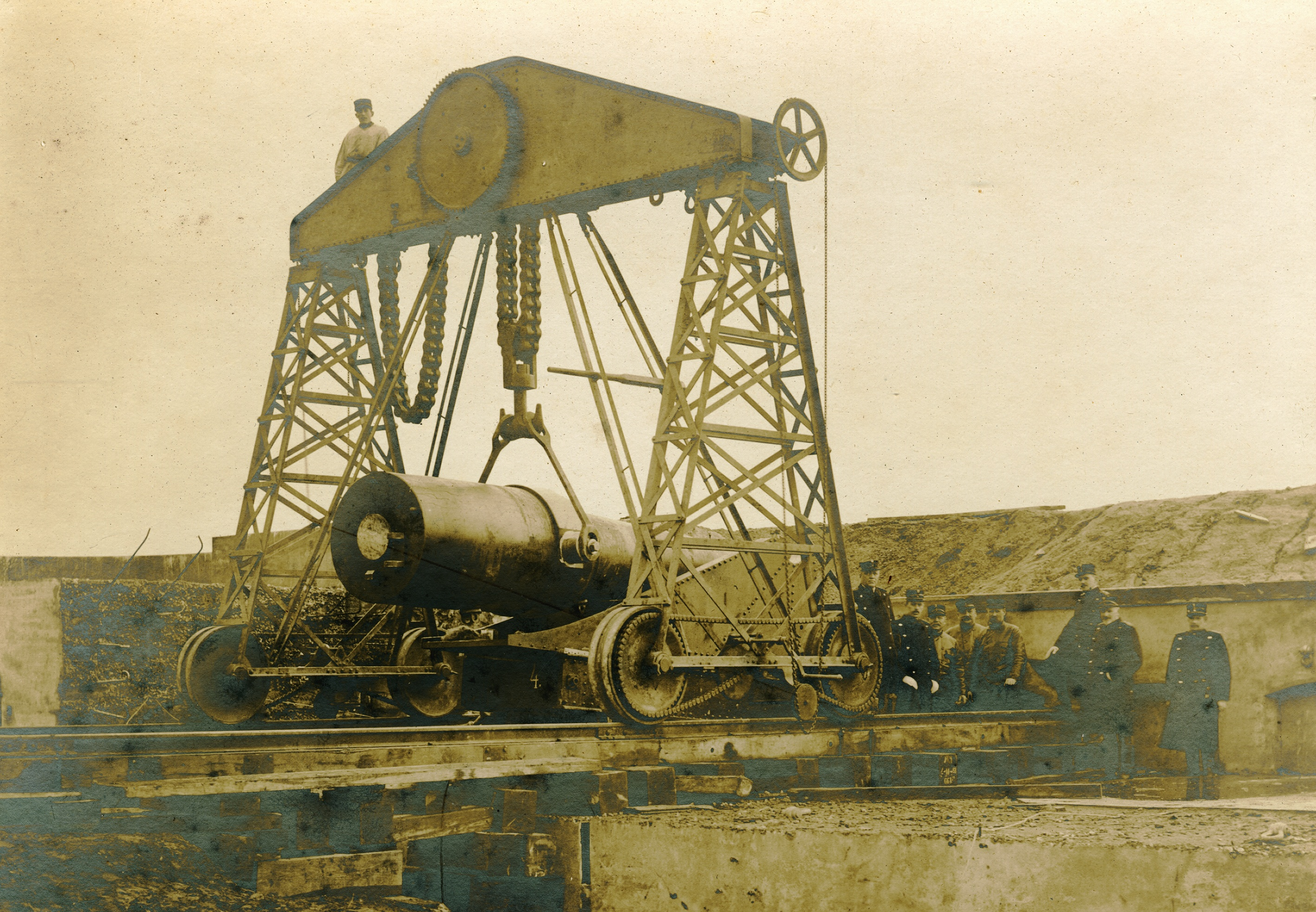 Assembly of a 29 cm howitzer at Charlottenlund Fort, February 24, 1911.